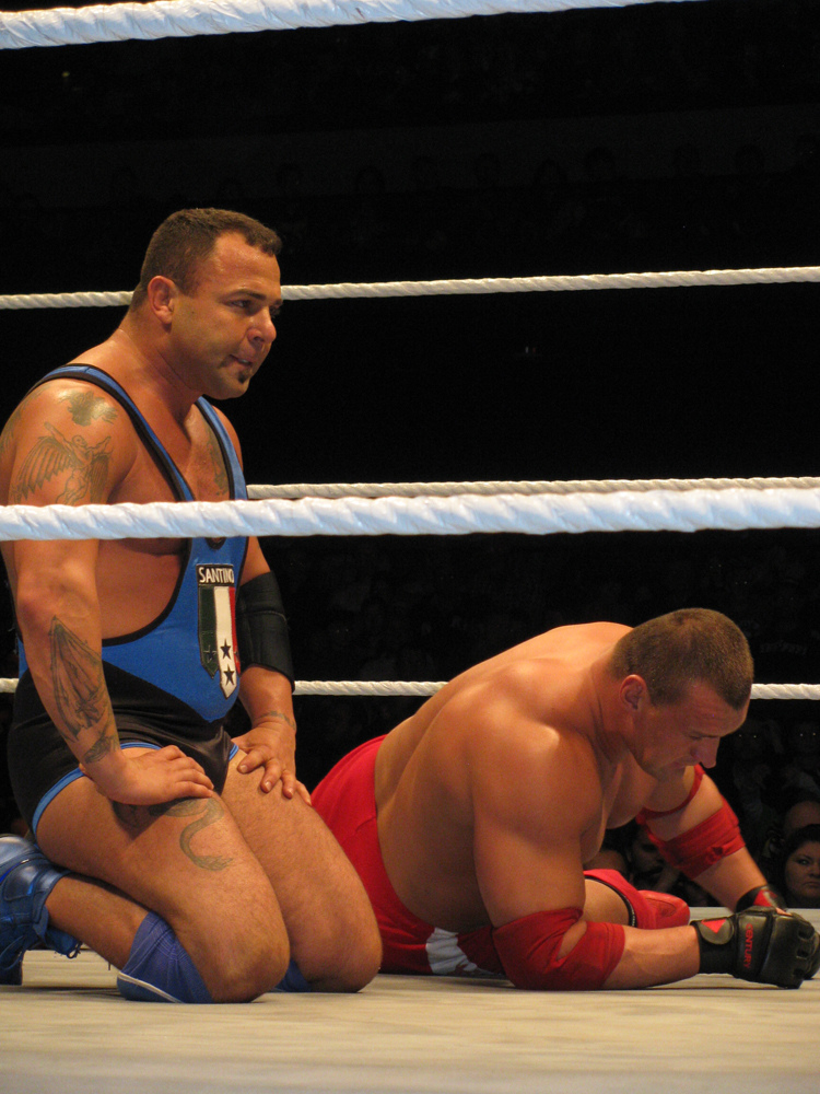 Santino Marella & Vladimir Koslov @ Adelaide, South Australia 'RAW' house show on the 4th of July '11